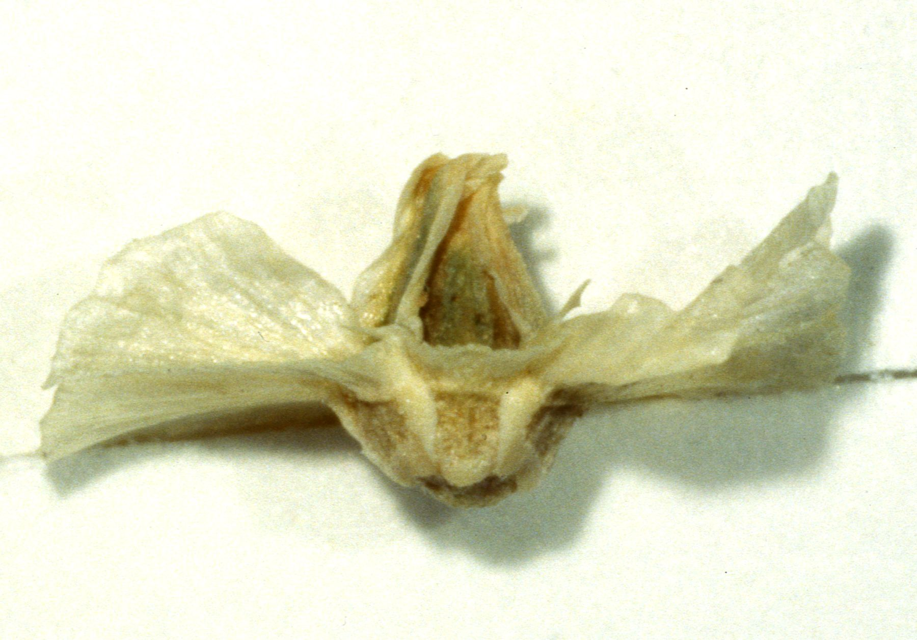 Fruit of Halothamnus bottae, lateral view (wings partially removed). Herbarium specimen collected in Yemen by D. Podlech, No. 36184.